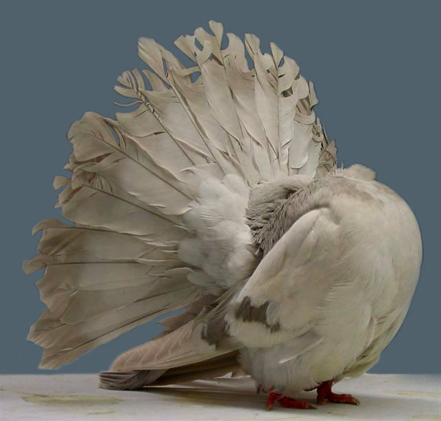 Fantail (Cream Barred)